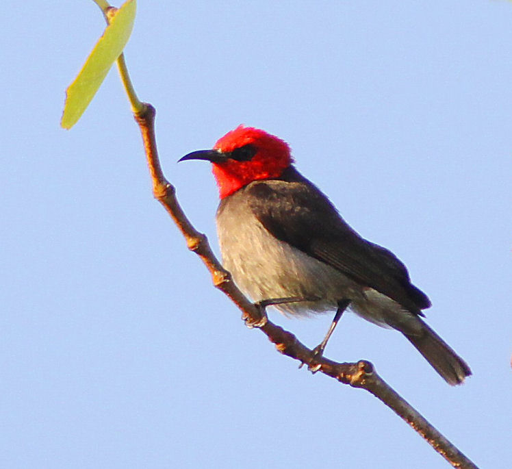 Red-headed Honeyeater perched on a mangrove branch